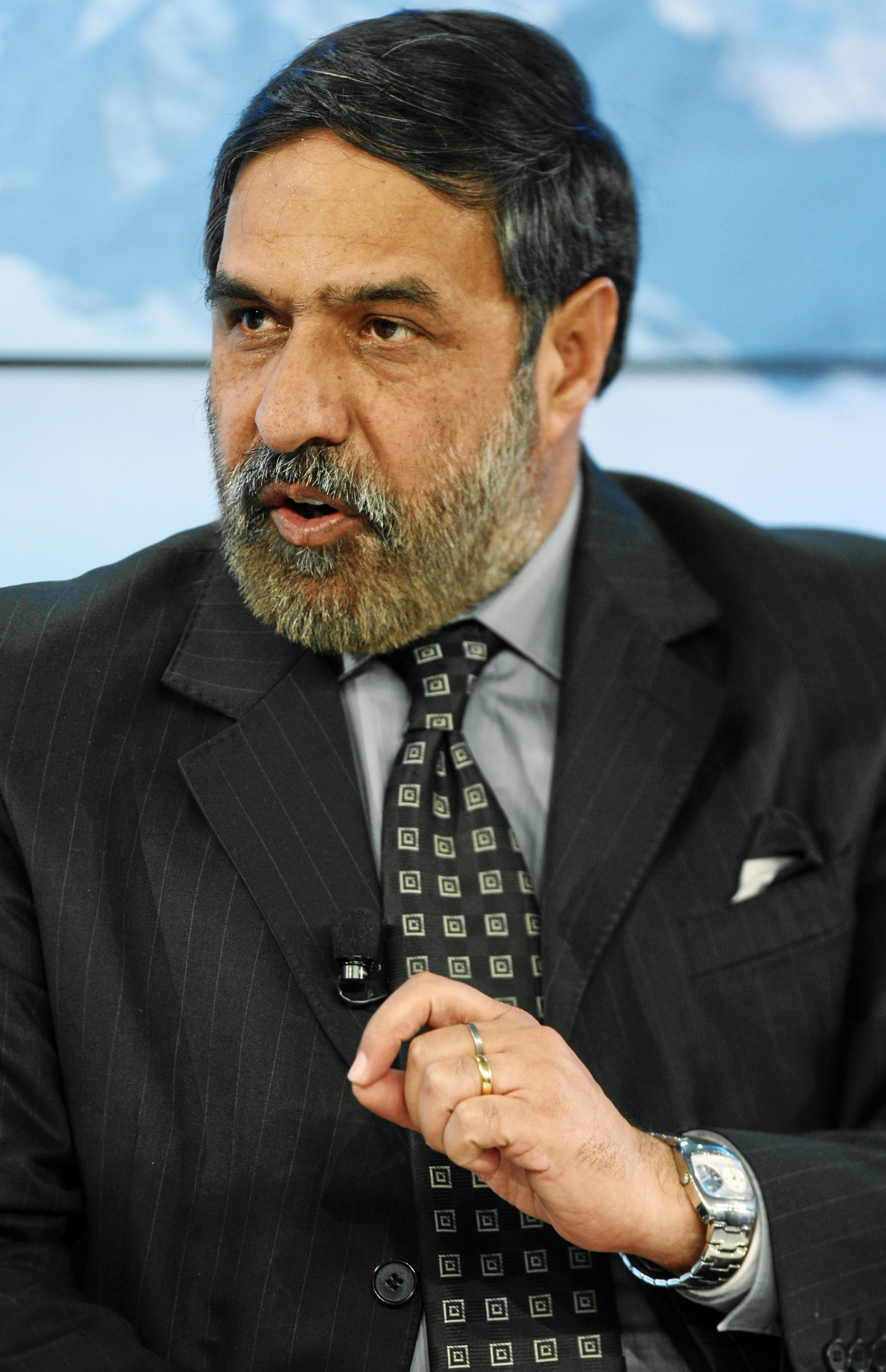 DAVOS/SWITZERLAND, 28JAN12 - Anand Sharma, Minister of Commerce and Industry, Textiles of India gestures during the session 'How Immune Is India?' at the Annual Meeting 2012 of the World Economic Forum at the congress centre in Davos, Switzerland, January 28, 2012. Copyright by World Economic Forum by Sebastian Derungs